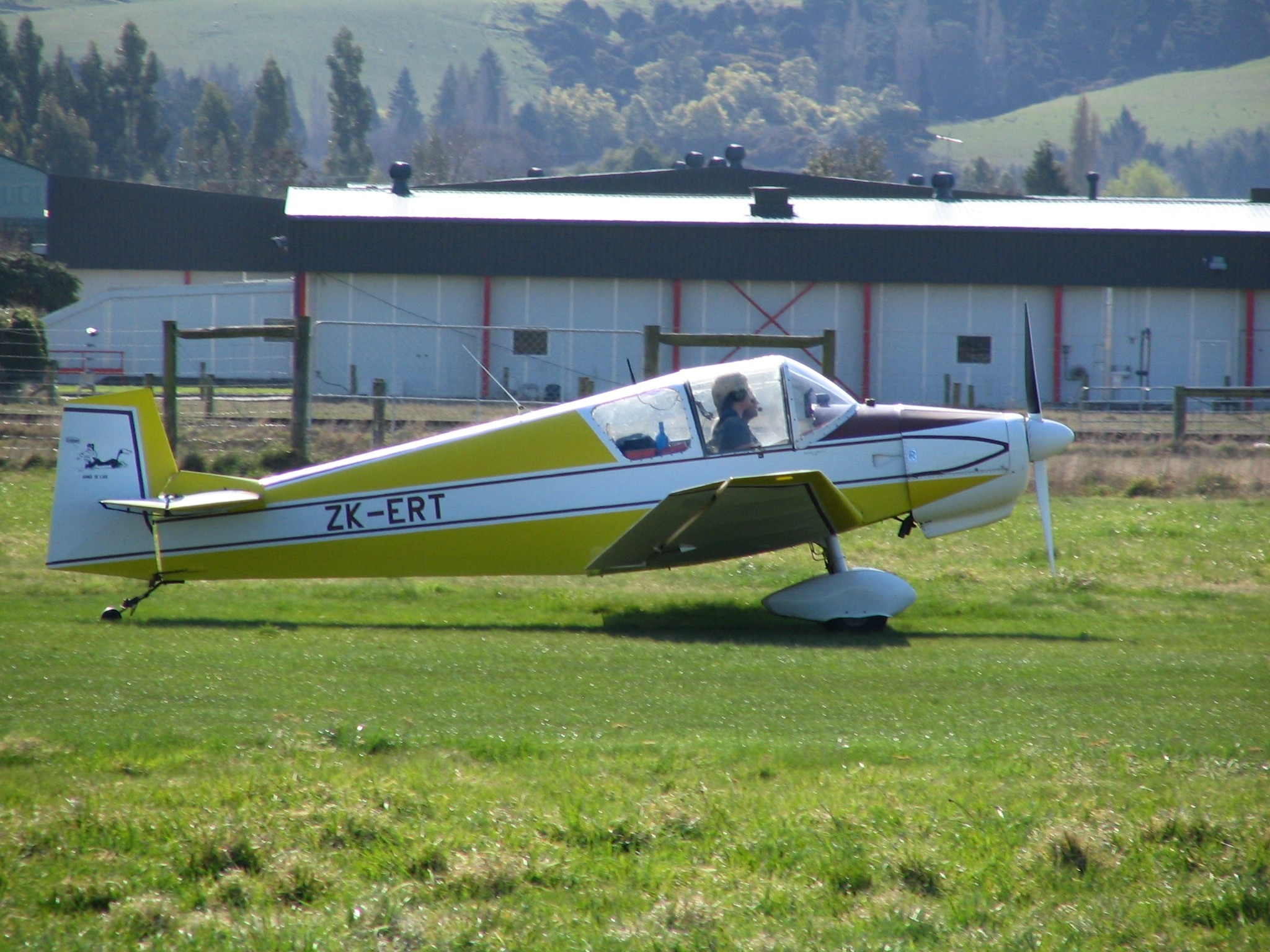 Jodel D11 ZK-DRT at Taieri Aerodrome, Dunedin, New Zealand.